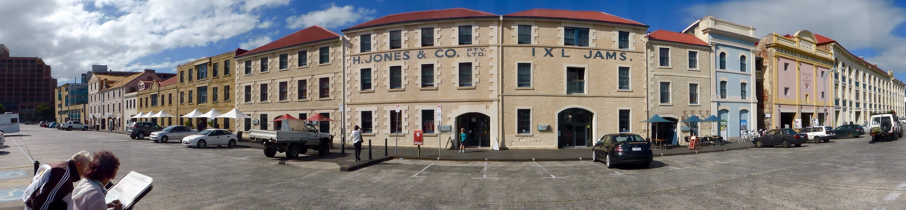 Hobart